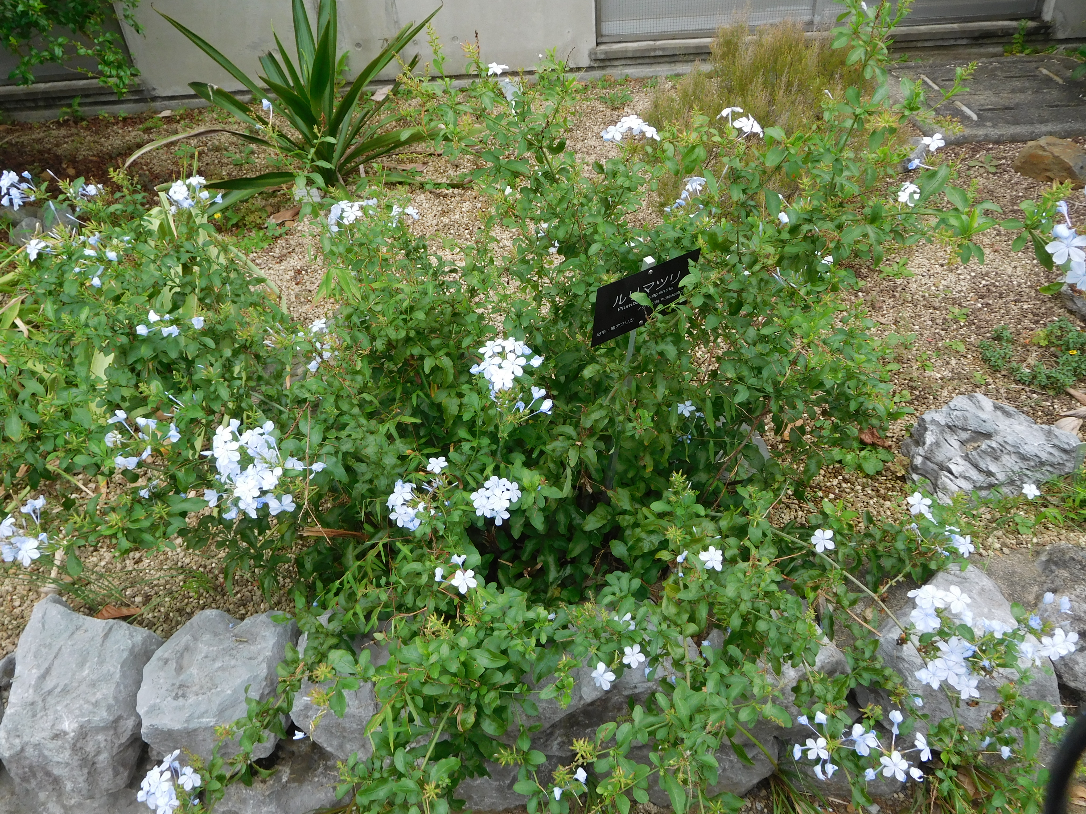 Cape Plumbago in Tsukuba Botanical Garden, Tsukuba, Ibaraki, Japan.